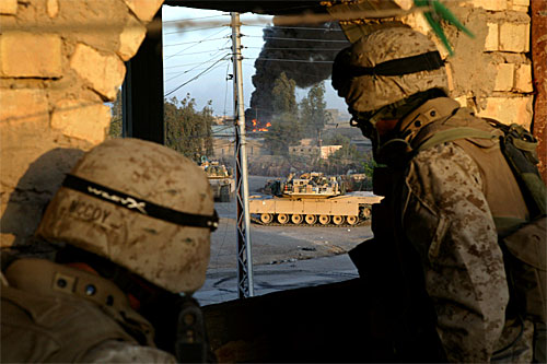 Marines of 1st Marine Regiment in Fallujah. Infantrymen from 1st Platoon, Company E, 2nd Battalion, 1st Marine Regiment, 1st Marine Division, look on from a rooftop as M-1A1 tanks from 1st Tank Battalion fire on buildings where enemy snipers took positions. The company entered Fallujah, Iraq, April 6, 2004, to combat enemy fighters who were attacking Coalition Forces from the city.